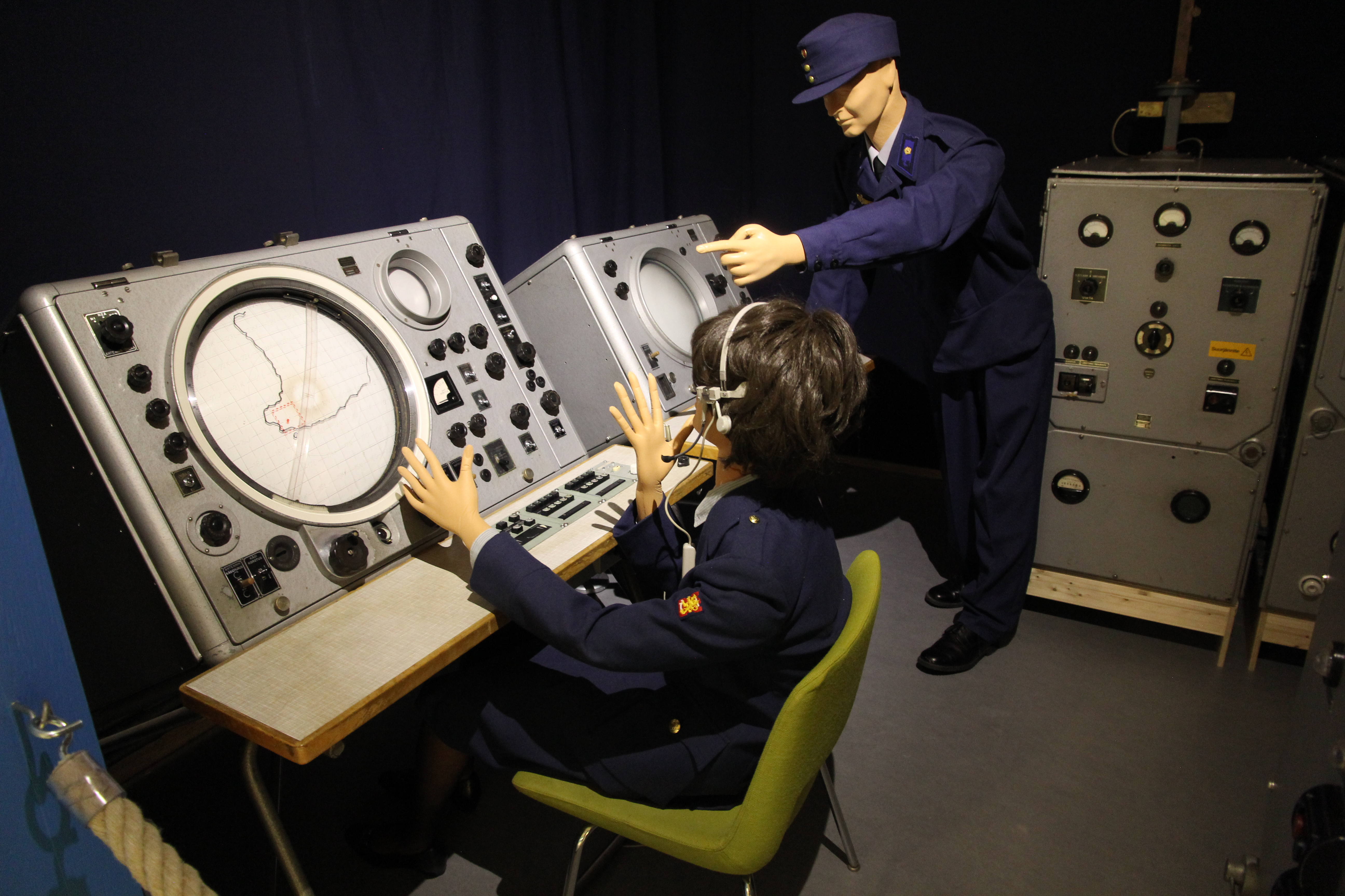 Finnish air defence center between 1950s and 1980s. Photographed in the Finnish Air Force signals museum.